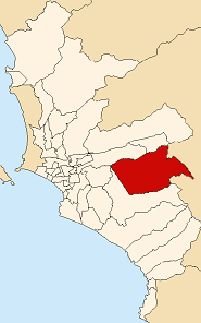 Map of Lima highlighting the Cieneguilla district in Lima.